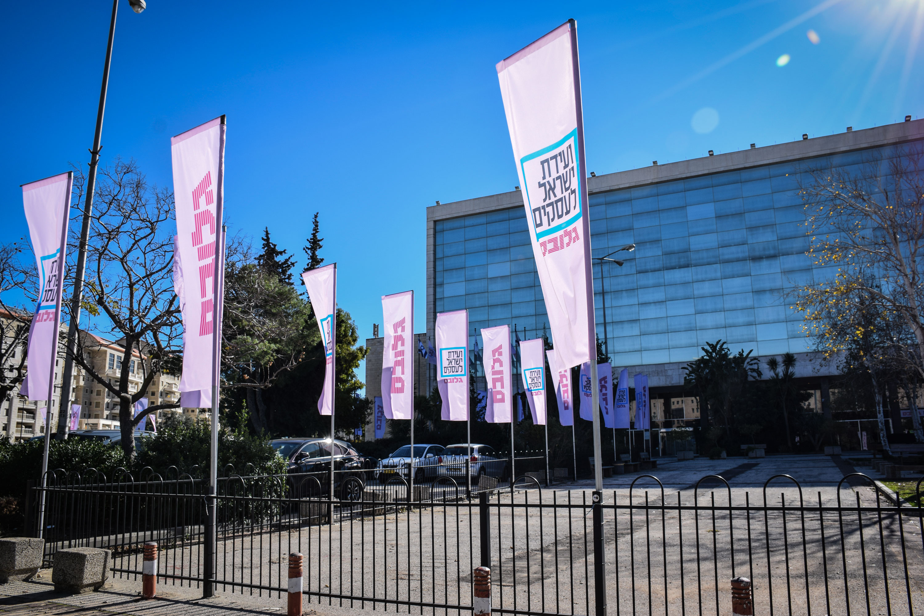 Globes Israel business conference 2018 at International Convention Center entrance Binyenei HaUma